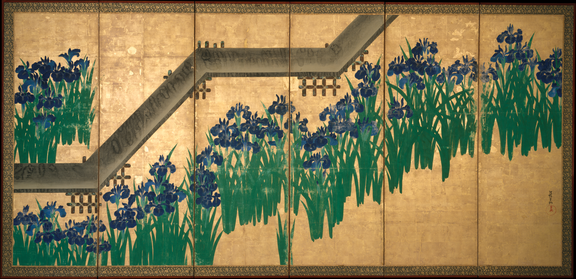 Japan; Folding screen; Screens